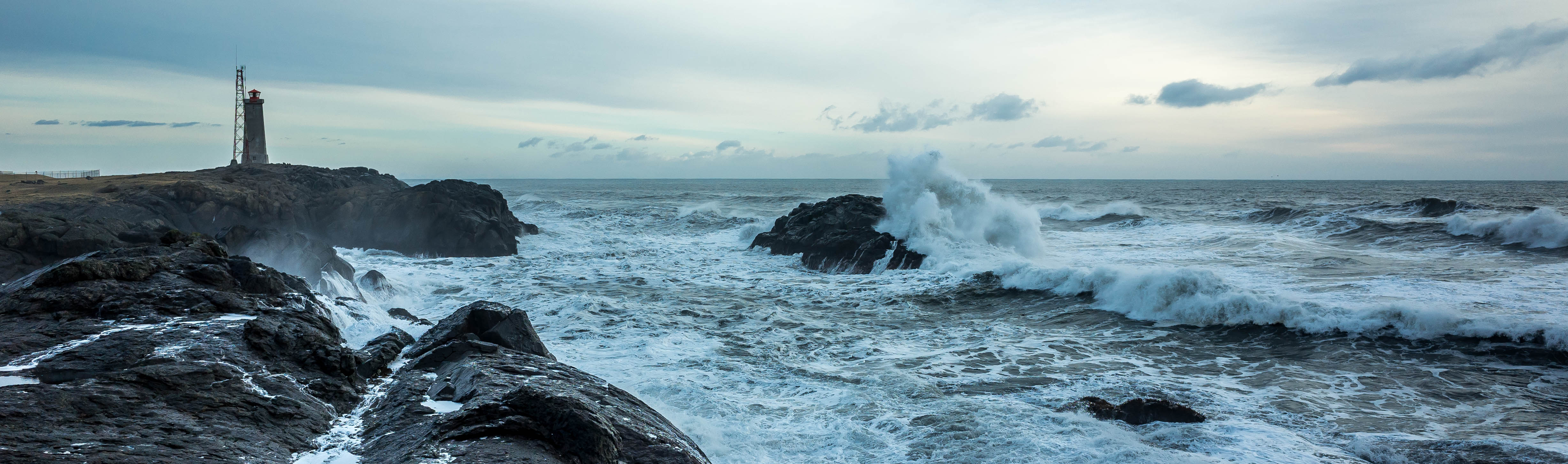 Stokksnes lighthouse and the raging ocean